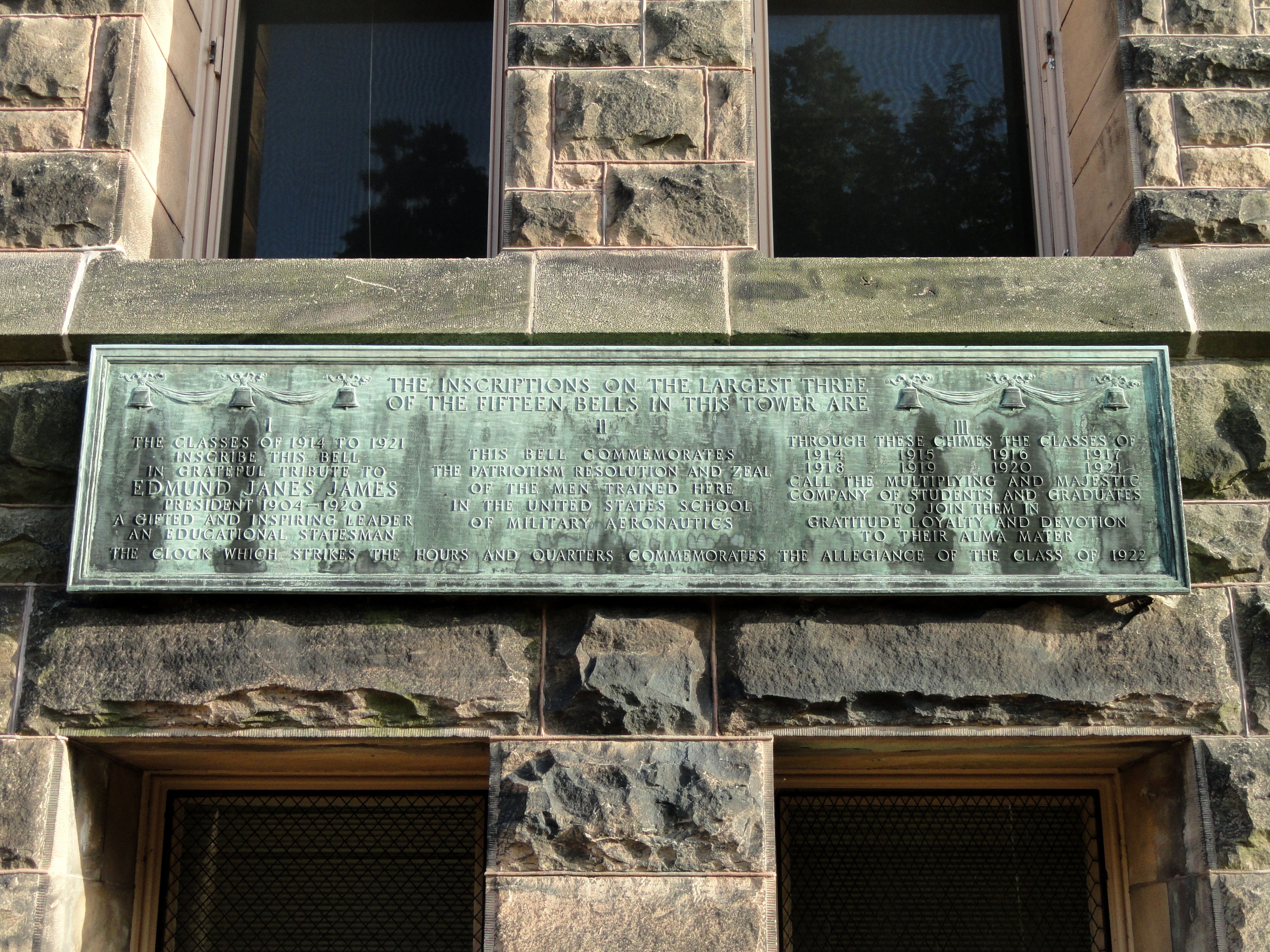 Historical plaque on the campus of the University of Illinois at Urbana-Champaign (UIUC), Urbana-Champaign, Illinois, USA.